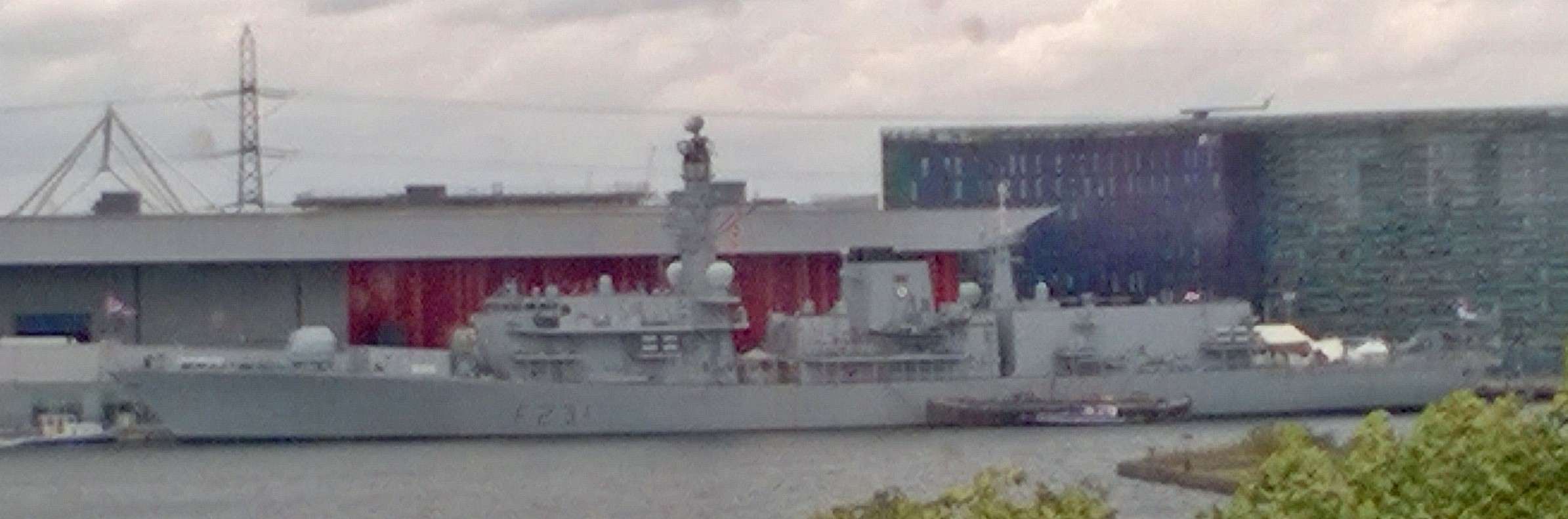 Type 23 frigate HMS Argyll moored in Royal Victoria Dock for DSEI 2017 exhibition